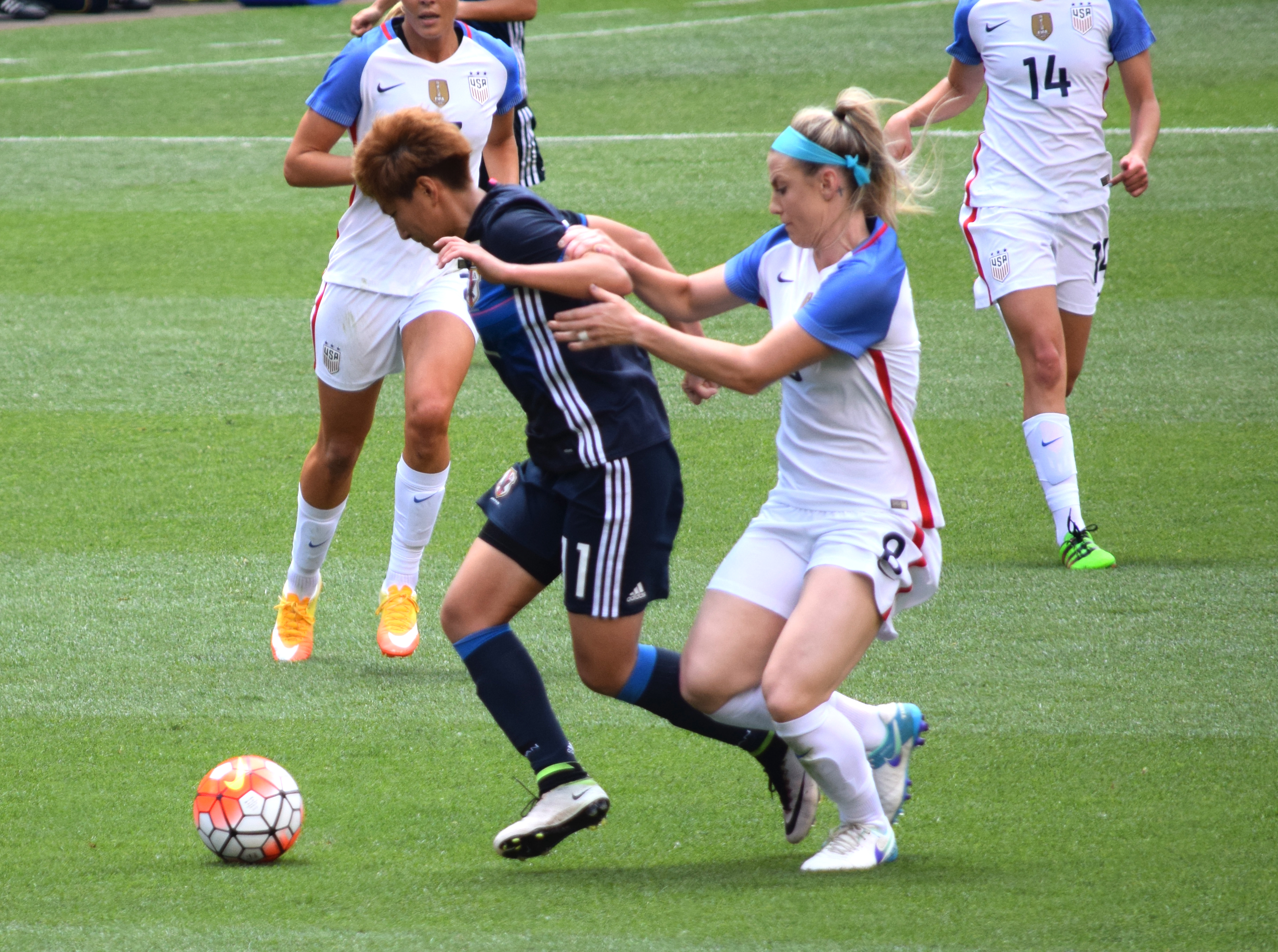 Yuika Sugasawa is fouled by Julie Johnston in the 13th minute of the match between USA and Japan on June 5, 2016 in Cleveland, OH